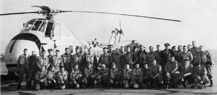 The personell of U.S. Navy helicopter anti-submarine squadron HS-9 Sea Griffins in front of one of their Sikorsky HSS-1 Seabat helicopters on board the U.S. aircraft carrier USS Leyte (CVS-32) in 1958.